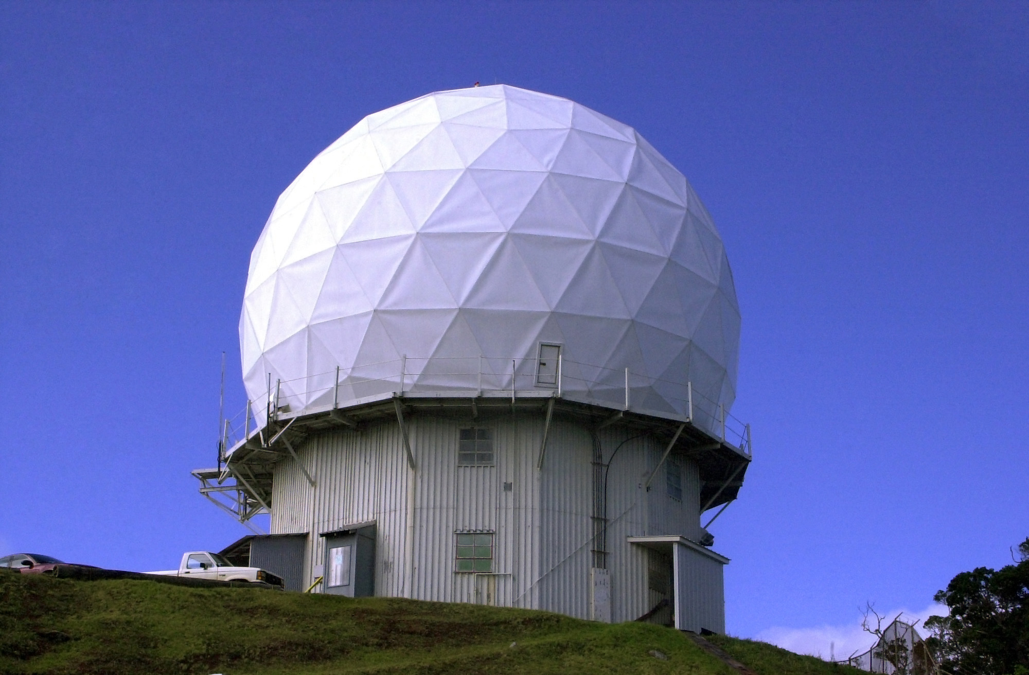 A view of the artic tower version of the AN/FPS-6 height-finding radar operated by the 150th Aircraft Control and Warning Squadron, located at Kokee Air Force Station (AFS), on the island of Kauai, HI. Location: KOKEE AFS, HAWAII (HI) UNITED STATES OF AMERICA (USA)